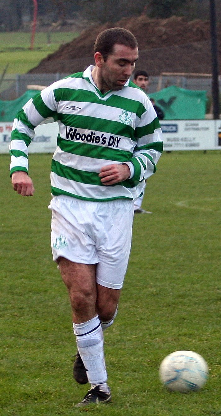 Andy Myler at a friendly match against Kildare, Feb 2007.